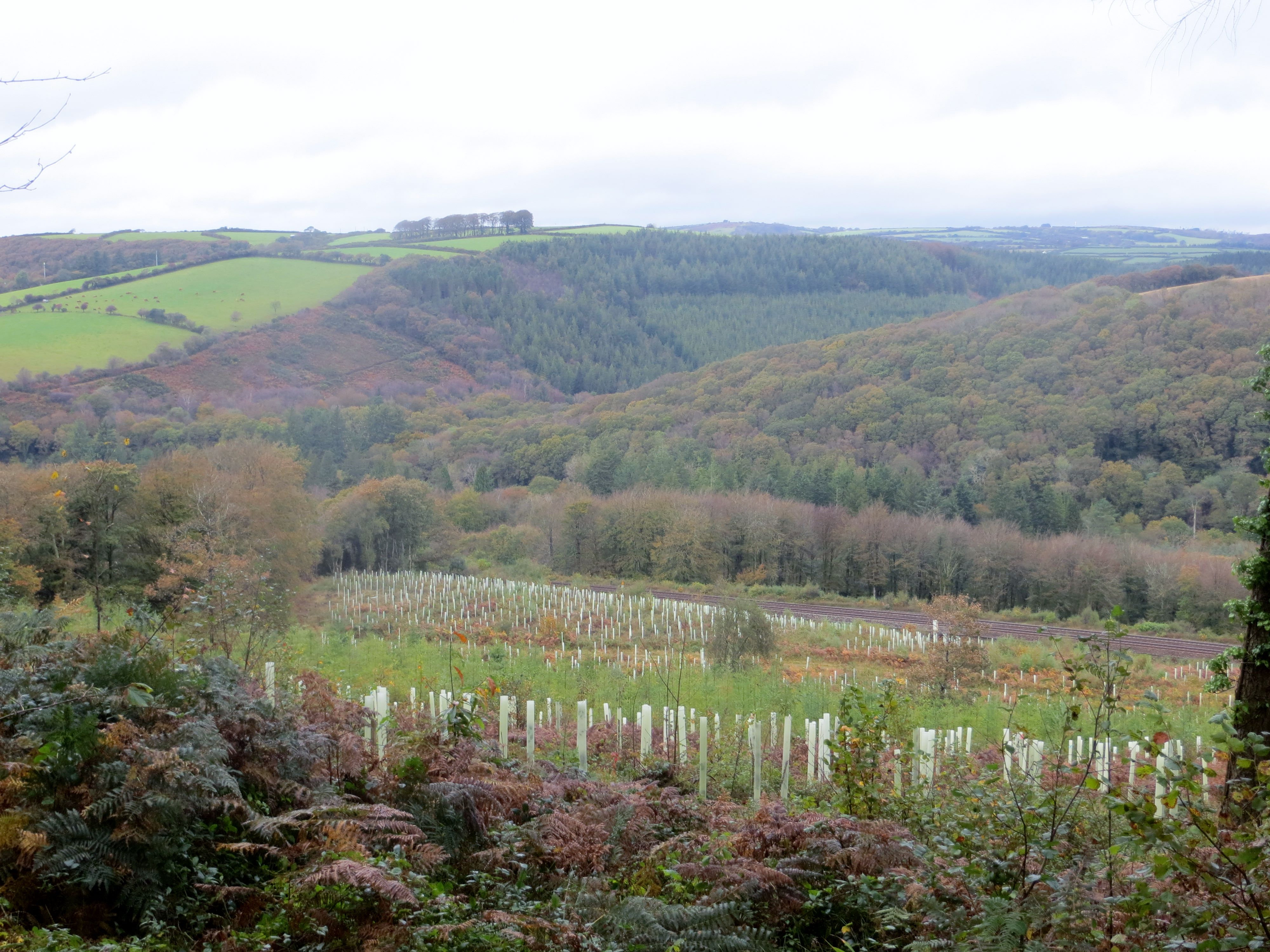 Largin Woods - October 2014